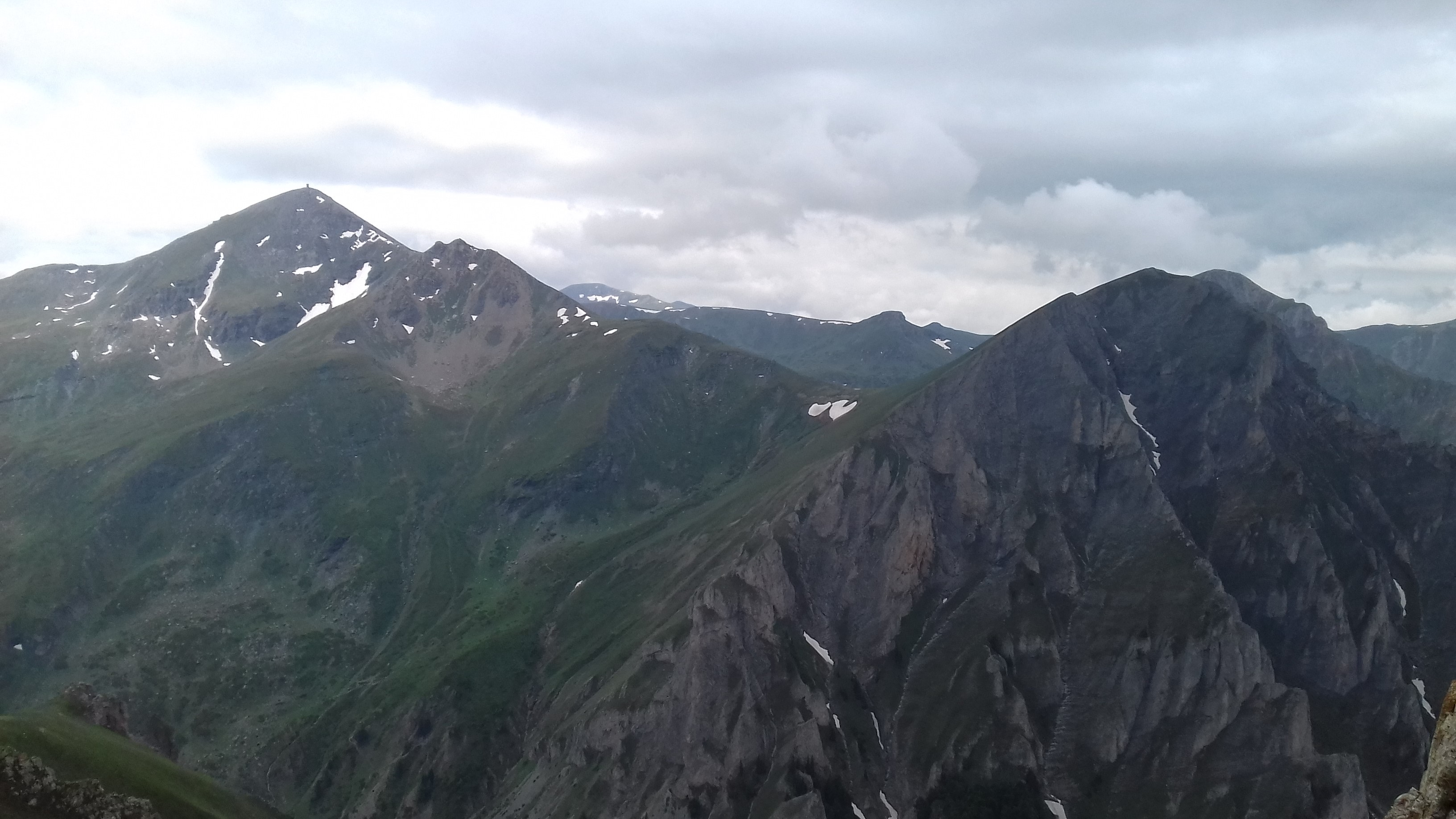 Sreden Kamen peak on Šar Mountain, Macedonia